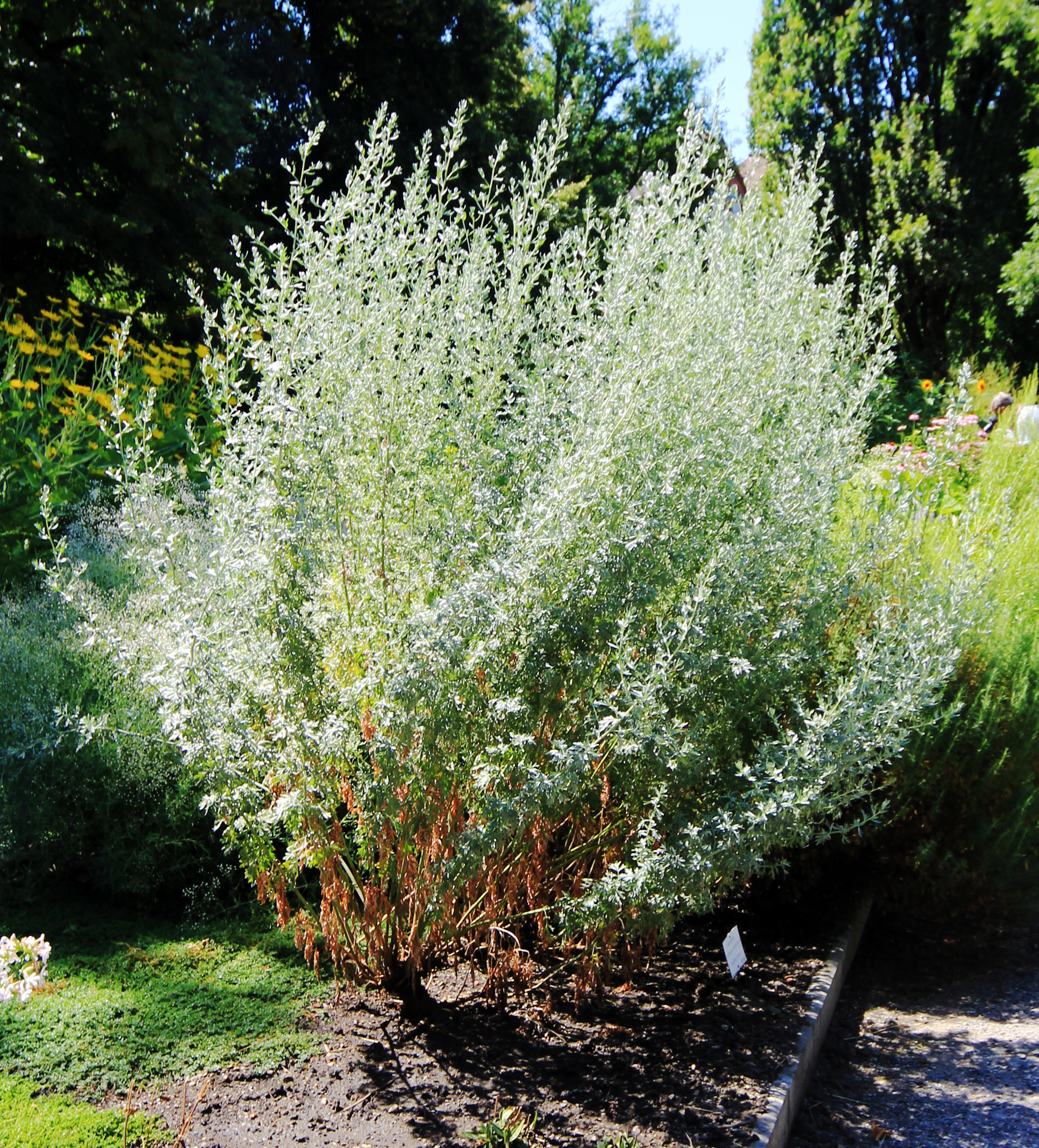 Plants Artemisia absinthium from the Botanical Gardens of Charles University, Prague, Czech Republic